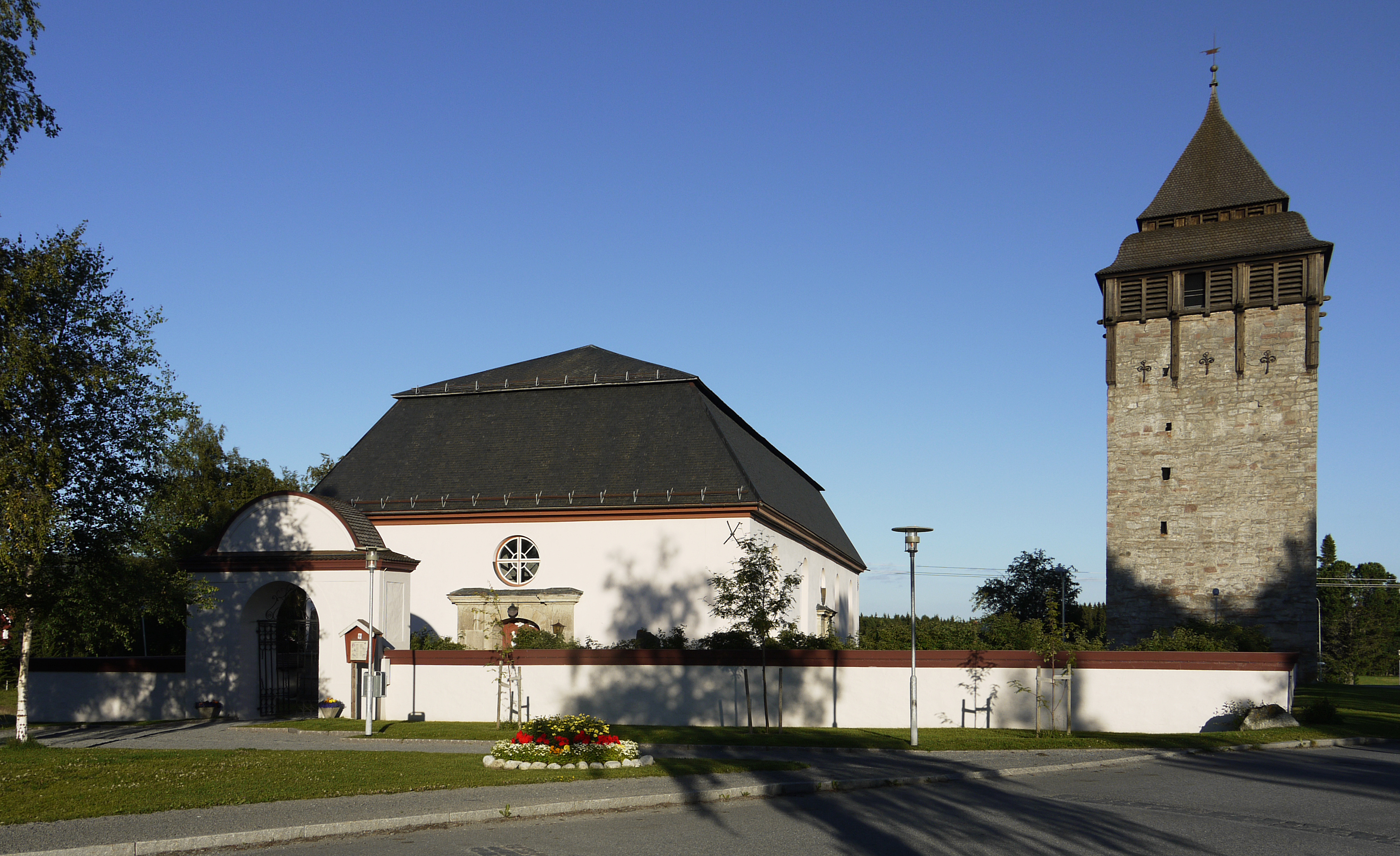 Brunflo kyrka/church. Main view. Diocese of Härnösand. Östersund kommun. Jämtland. Sweden.